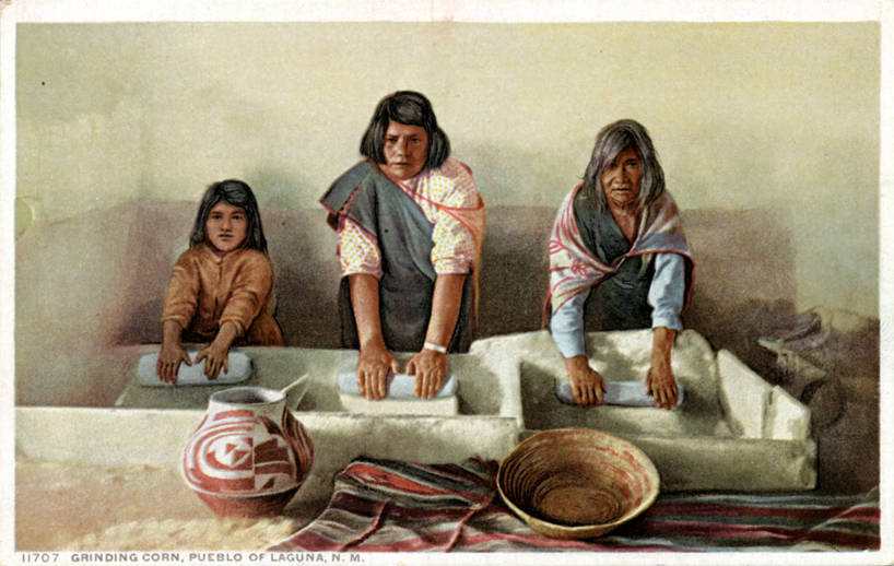 Grinding Corn, Pueblo of Laguna